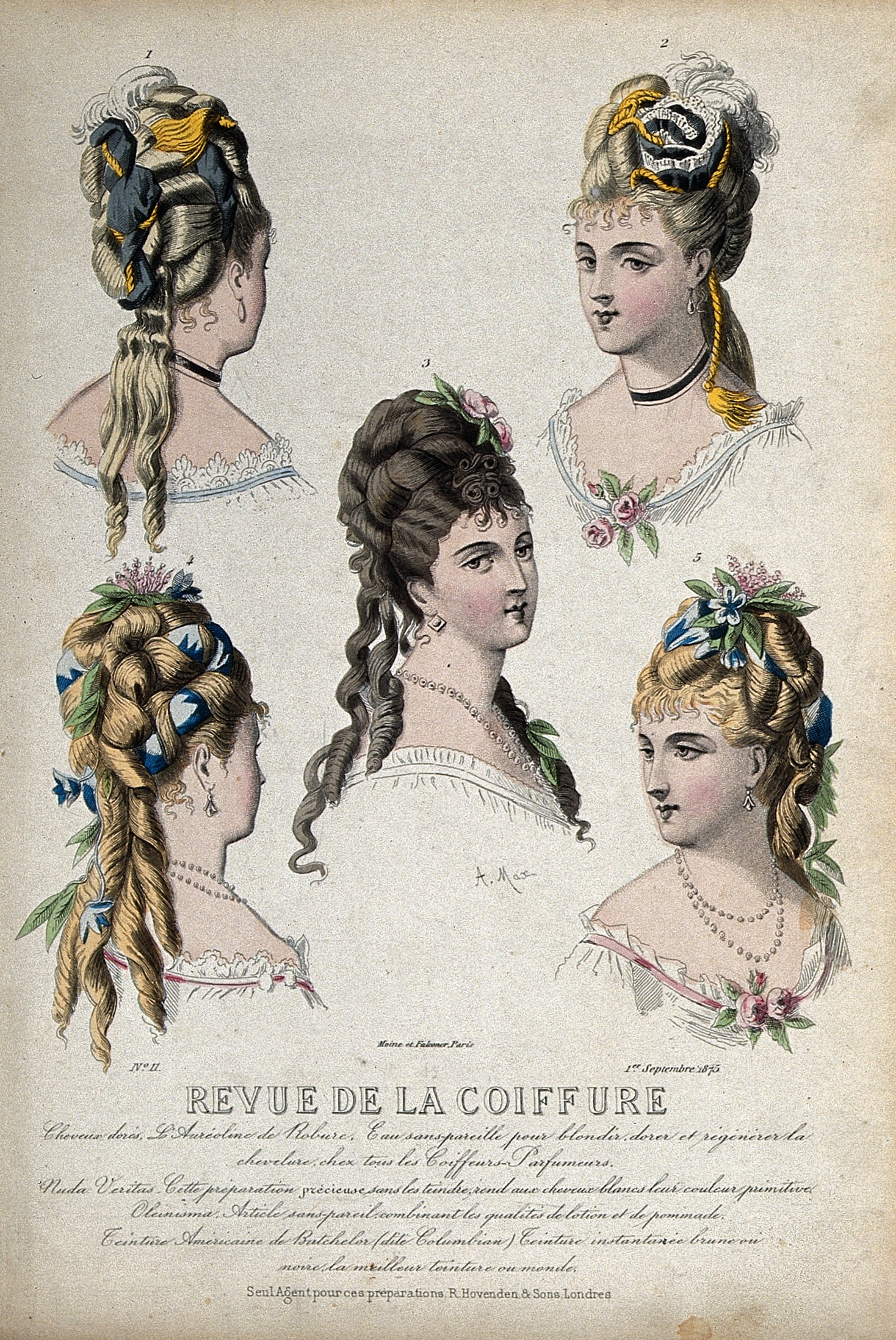 The heads and shoulders of five women with their hair combed back and dressed with chignons decorated with scarfs, feathers and flowers. Coloured line block, 1875, after A. Max (?). Iconographic Collections